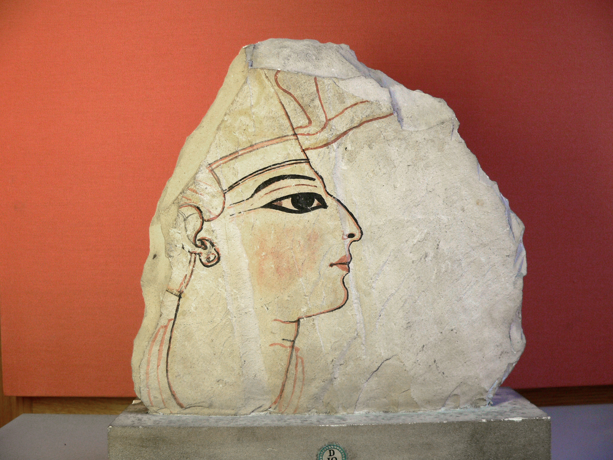 Portrait of a pharaoh, probably Rameses VI. Painted shard of limestone, 1143–1136 BC (20th Dynasty).